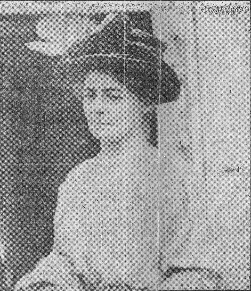 Photo of Isabel Lyon, Mark Twain's longtime secretaryOther information: Mark Twain wrote, "Miss Lyon looks sad in that picture. I think I pity her, but I hope to be damned if I want to".